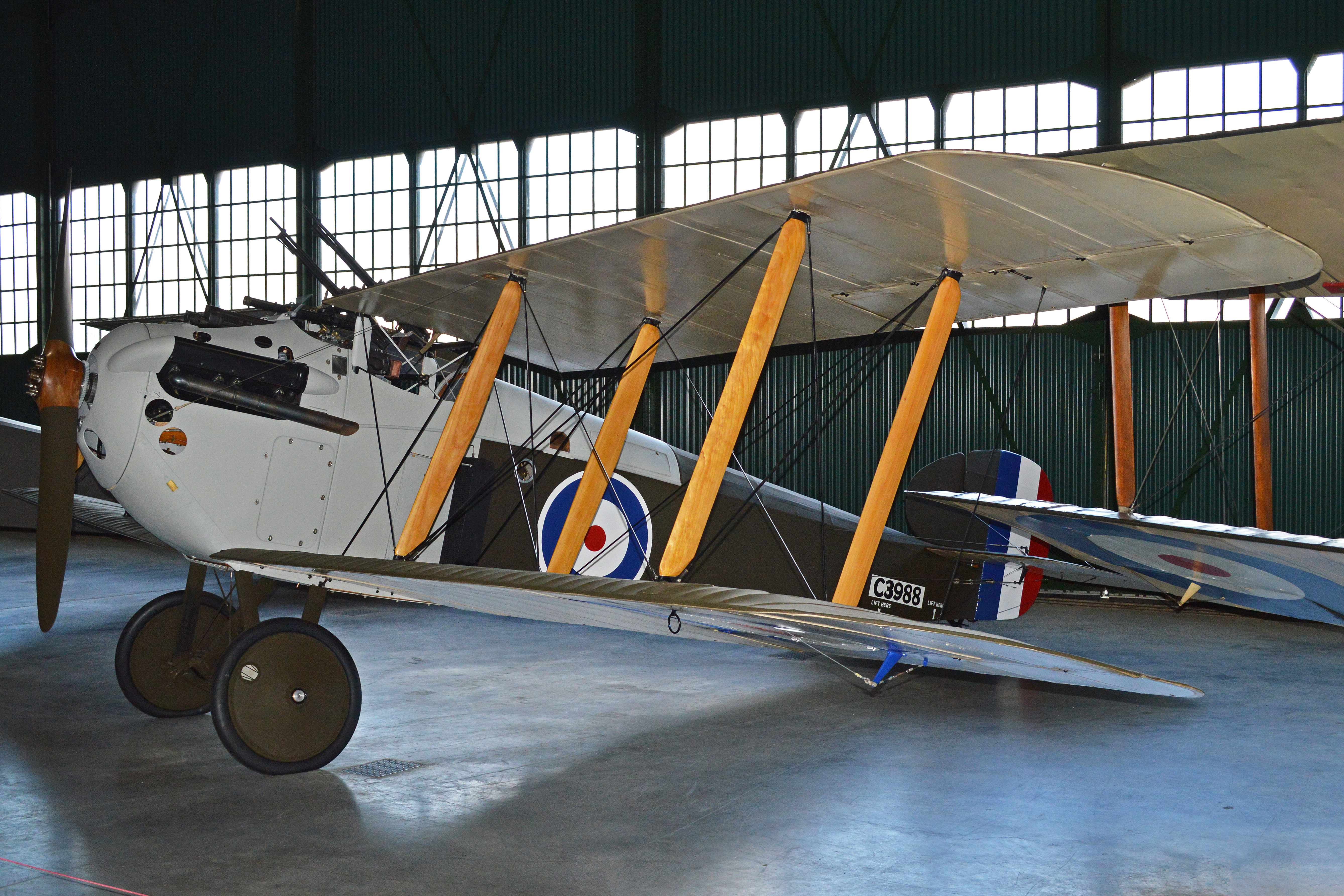 Although a recent recreation, this aeroplane uses a number of original components including the rear fuselage of C3988, the cowlings, radiator, fuel tank, header tank, wheels, struts and fin from D5329, tailplane from C4033 and the elevators from D3725. Reconstructed by RAF Museum craftsmen between 1997 and 2012 initially at Cardington, then Wyton and finally Cosford. On display in the Grahame-White Factory, RAF Museum Hendon. 14-3-2013